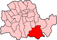 Map of the Metropolitan borough of Lewisham, former County of London.